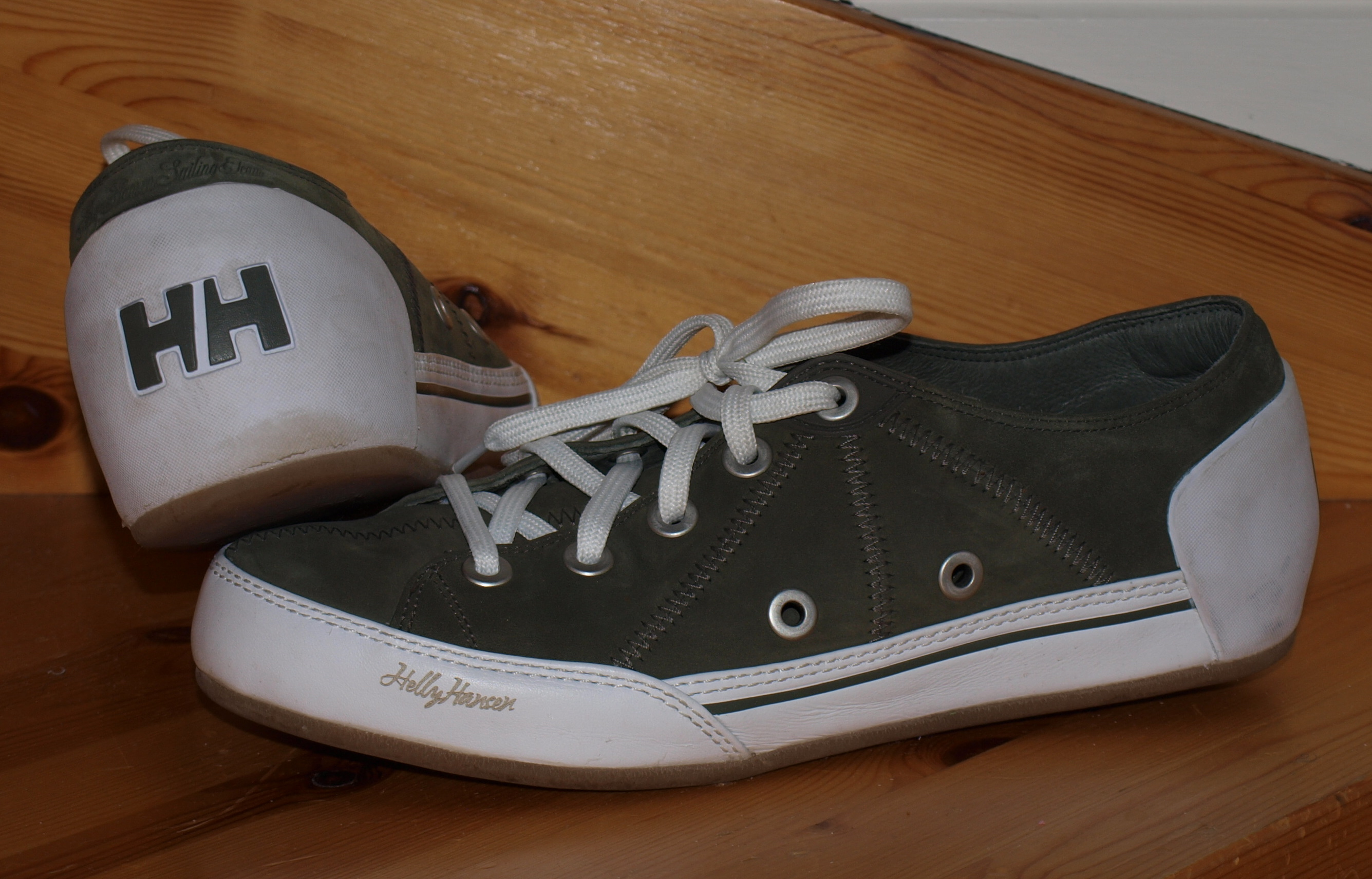 Helly Hansen shoes.